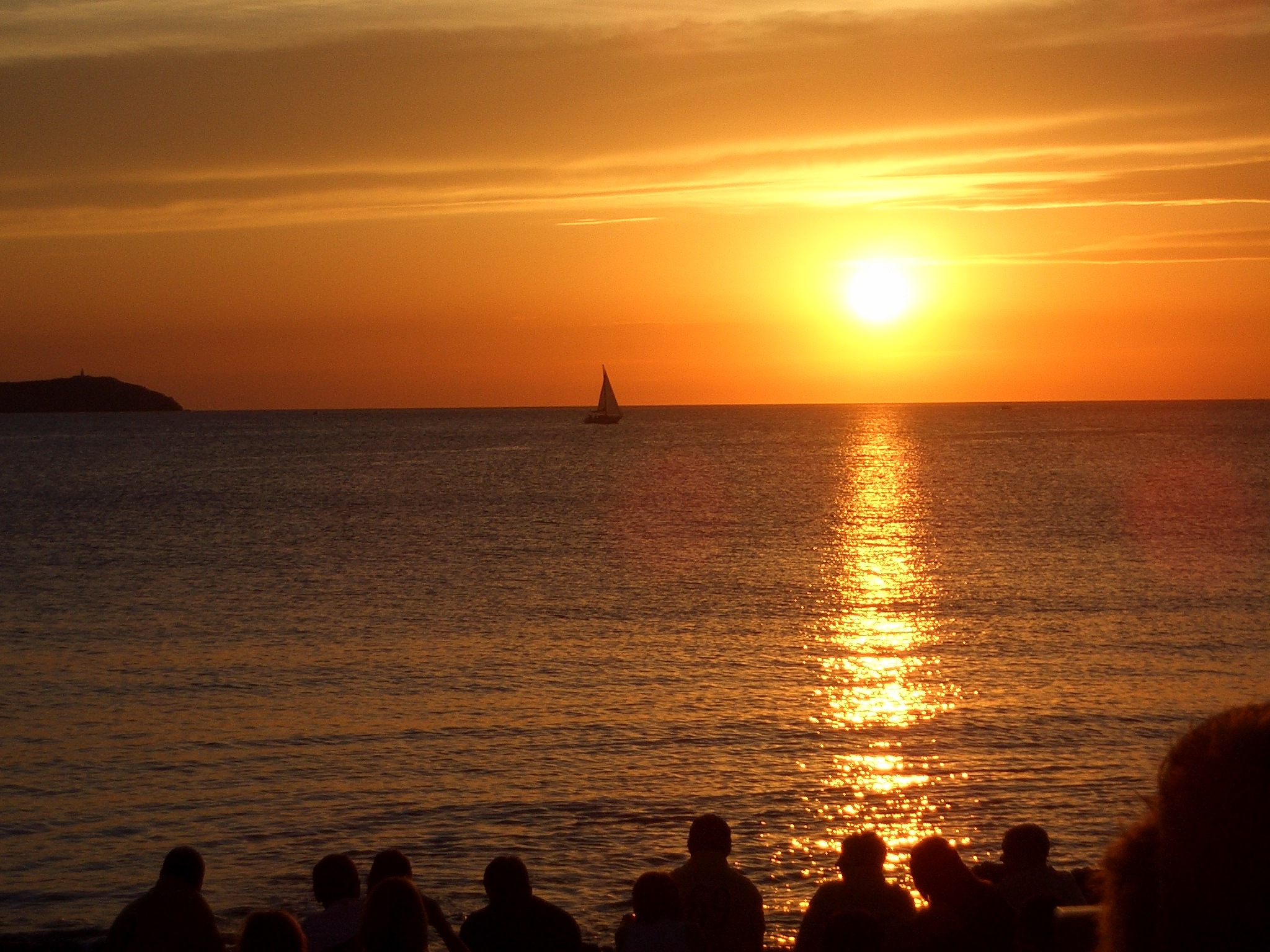 For those that don't know, each Cafe del mar location is picked specificly for it?s beautiful sunsets; my friends and I sat with a beer in hand, listening to some great music and enjoyed this moment.